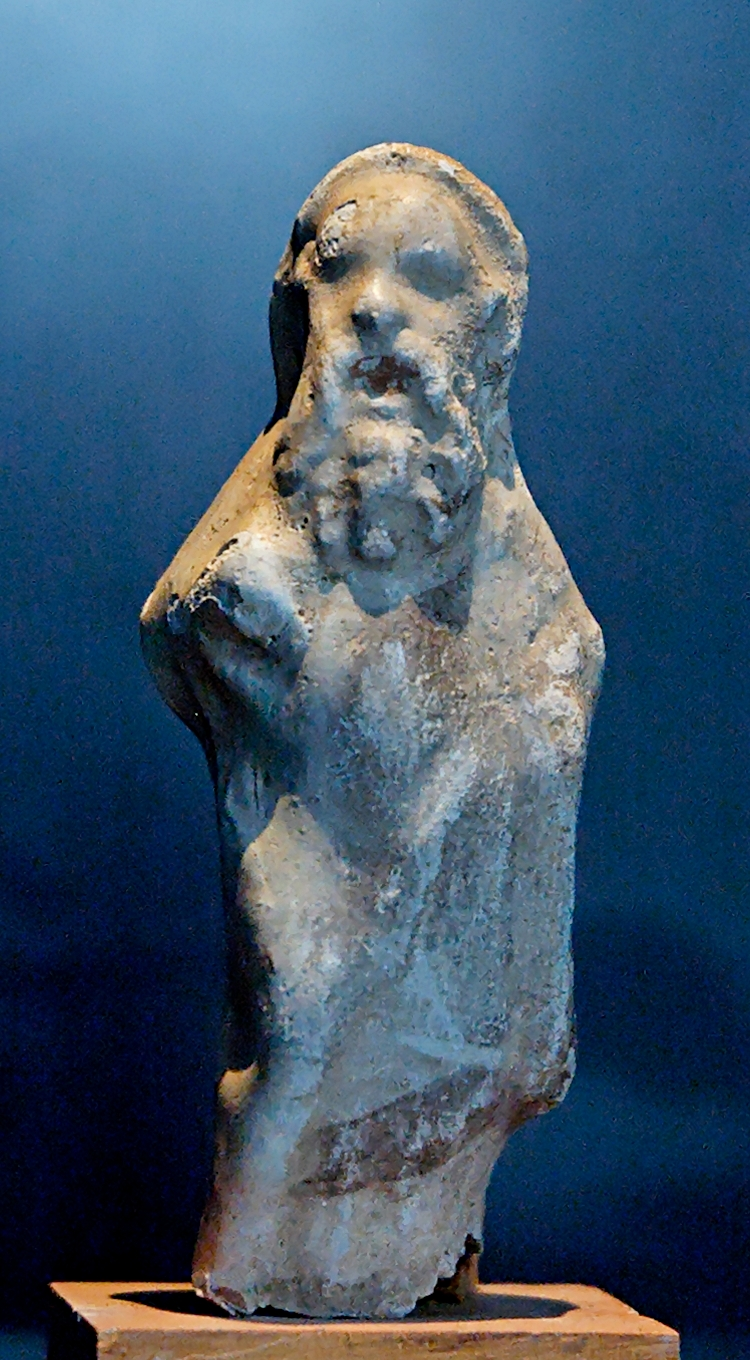 Statuette of Homer. Terracotta, first half of the 3rd century BC. From the necropolis of Contrada Diana in Lipari. Stored in the Museo Archeologico Regionale Eoliano Luigi Bernabò Brea.